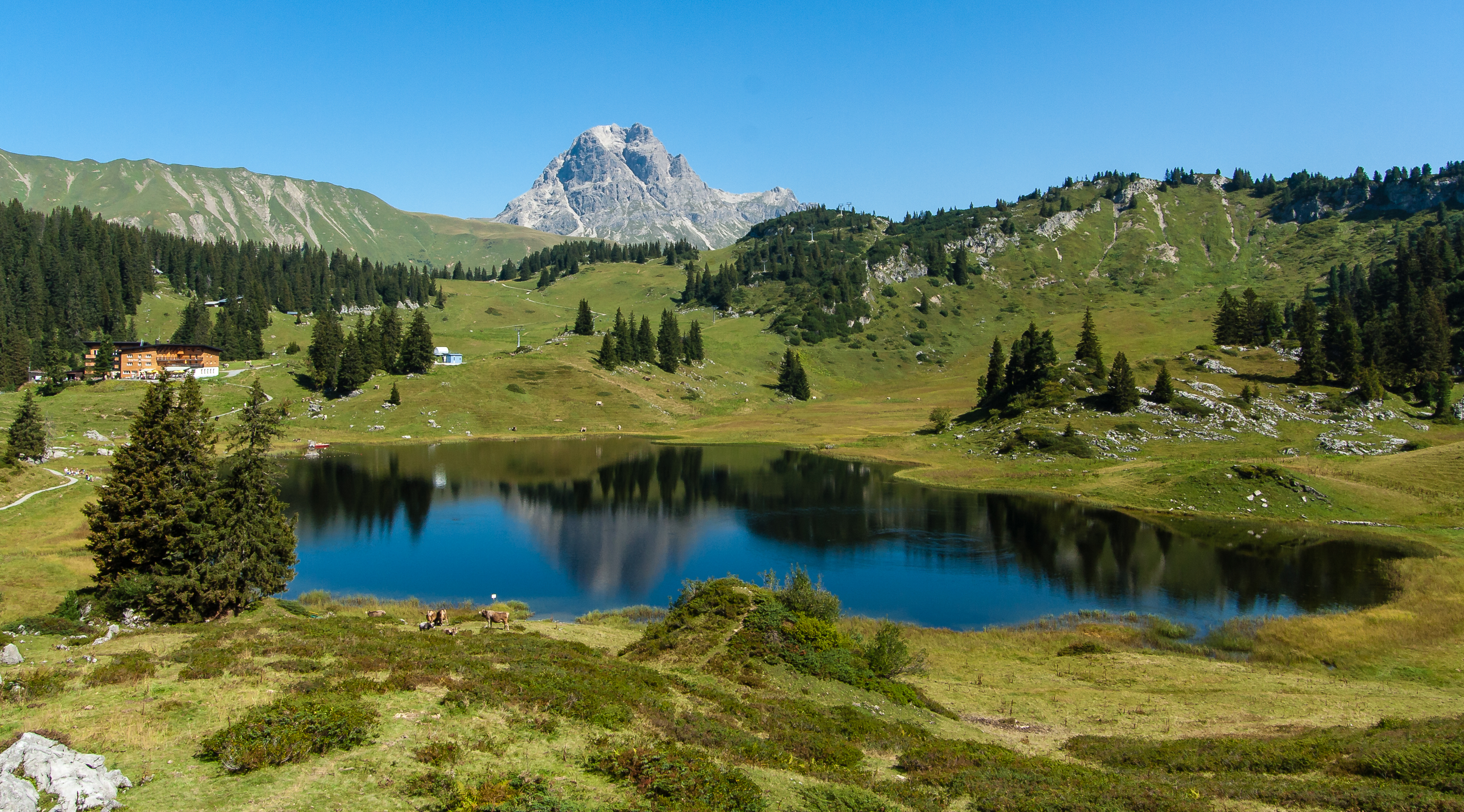 Designation: Körbersee Category: Biotope, Flora protection area Number: 23410 Date of the regulation: 07/02/1958 Description: In a wide karst hollow, surrounded by more or less steeply falling rocks from Rhaet limestone and Koessen layers lies the Körbersee. He has an overflow going to the northeast.(to the far left of the picture) The lake area is approximately 3.5 ha. The lake is largely free of vegetation, although especially the marginal abundant the society of the Potamogetum natans occurs. Much of the lake shore is surrounded by a siltation zone. These mostly water-covered sands are assigned to the Caricetum rostratae, the proportion of Menyanthes trifoliata and Equisetum fluviatile is high. Place: Municipality Schröcken, District Bregenz, Vorarlberg, Austria Location: Lechquellen Mountains, Bregenz Forest.